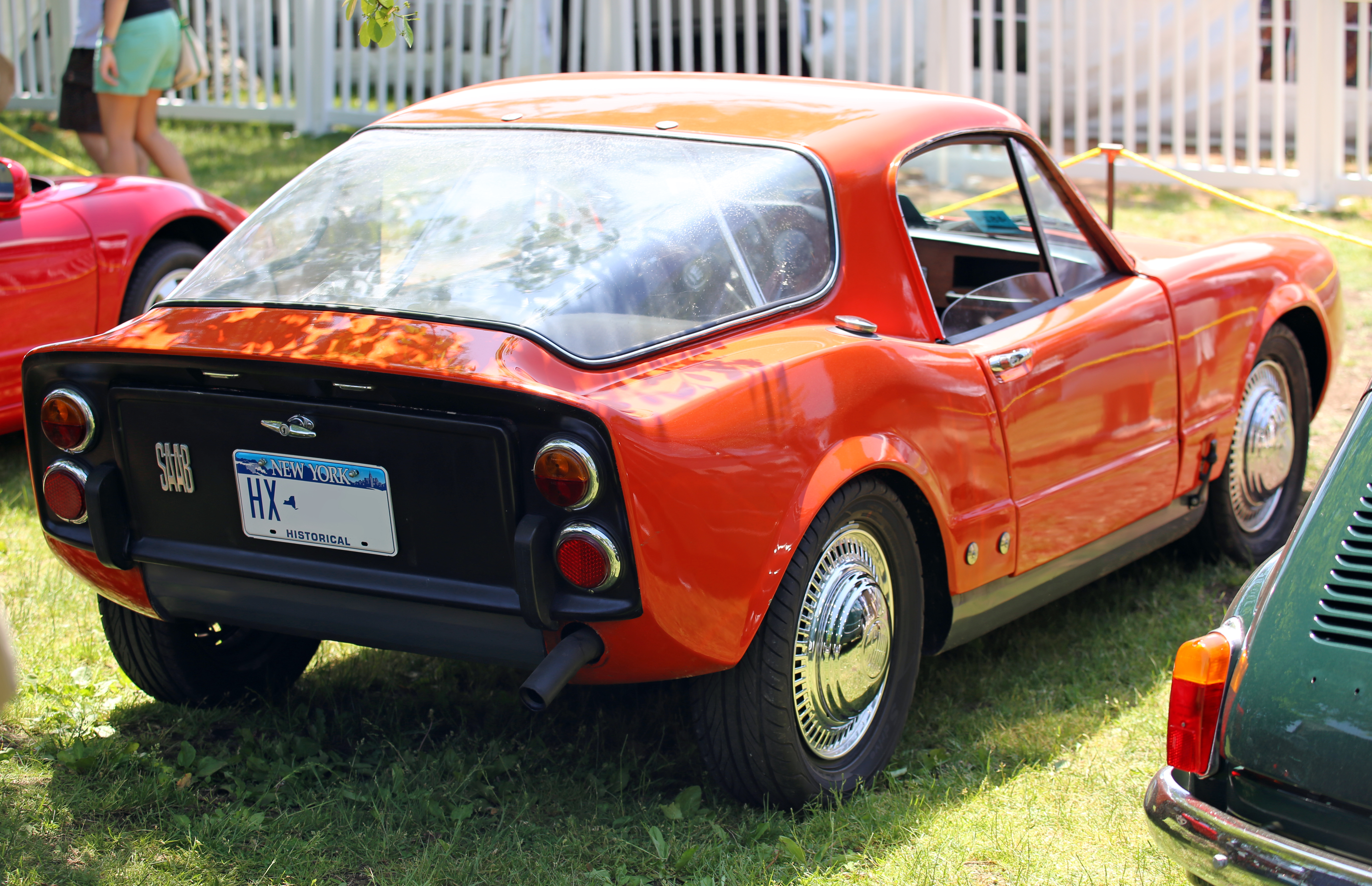 Rear view of 1966 SAAB Sonett II at the 2013 Greenwich Concours d'Elegance. Only 258 two-stroke Sonett IIs were built.